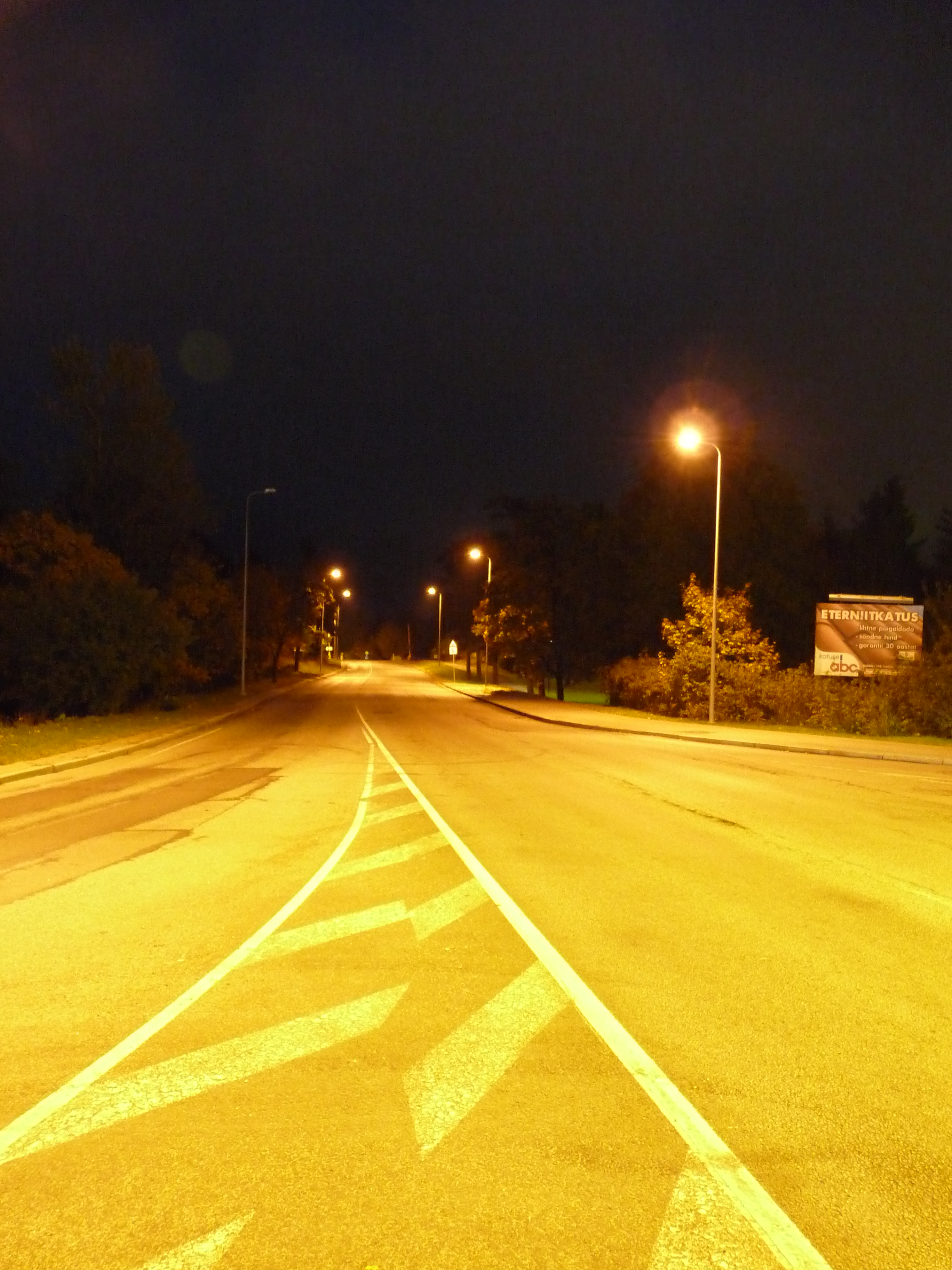 Viljandi Highway